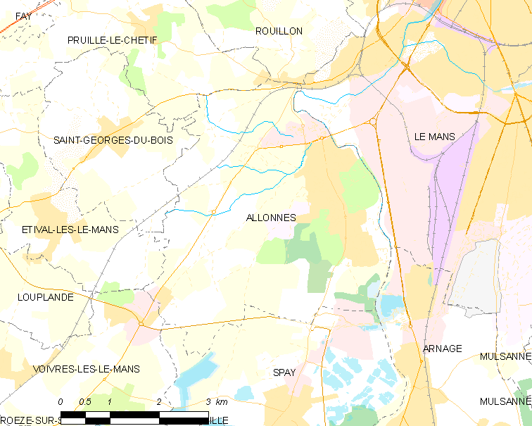 Map of French municipality